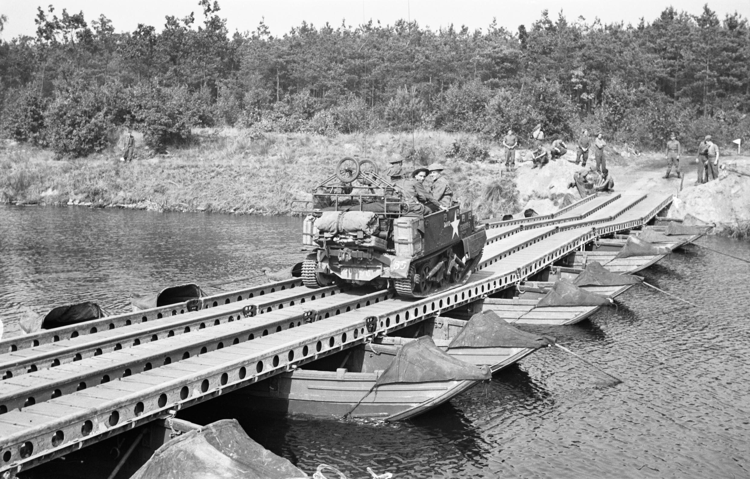 The British Army in North-west Europe 1944-45 Carriers of 1/5th Welch Regiment, 53rd Division, crossing the Meuse into Holland, 20 September 1944.